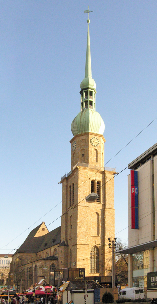 Reinoldikirche in Dortmund, Germany